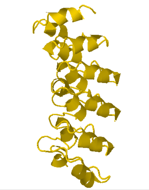 CLIP4 tertiary structure. Taken from PhyreRisk (